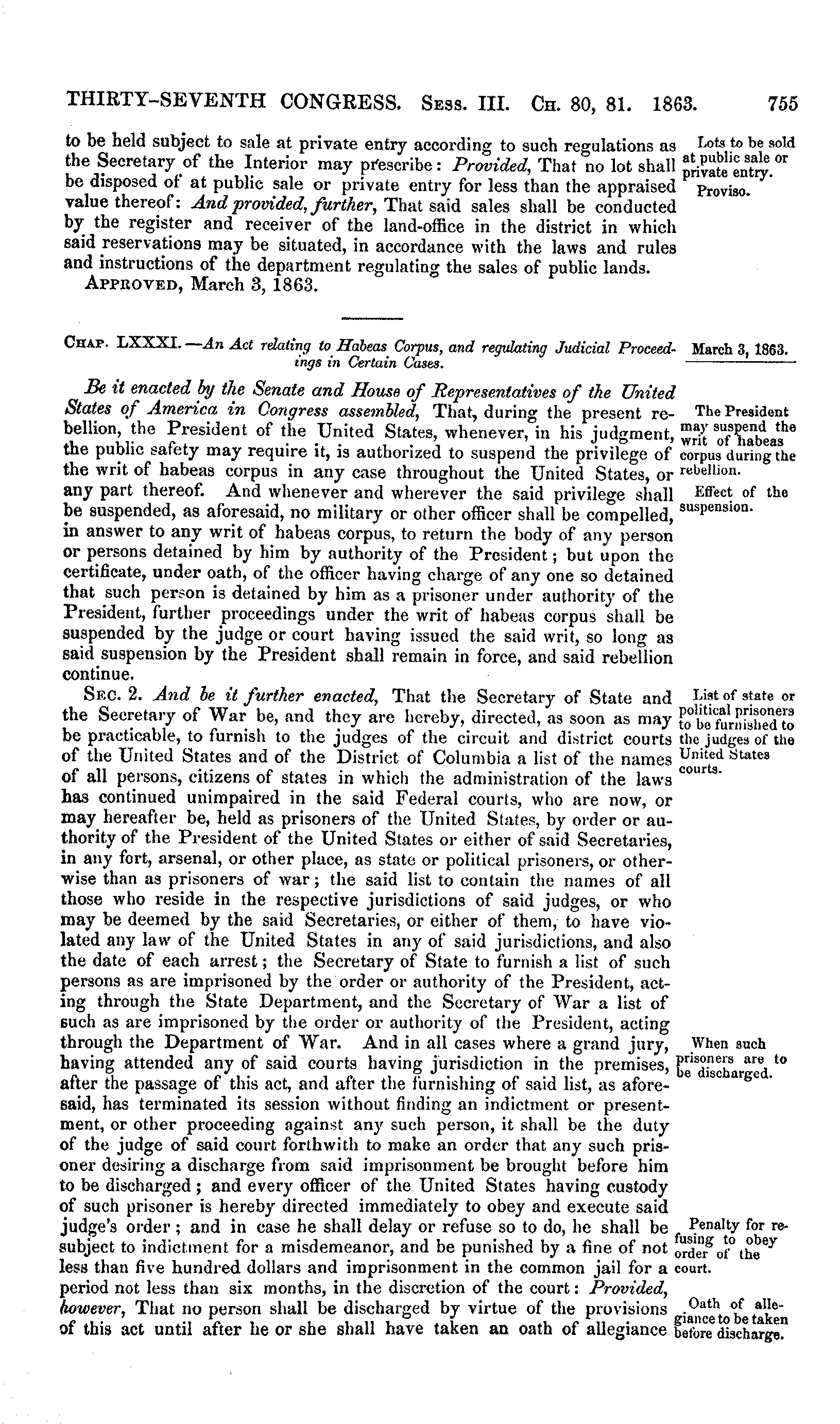 United States Statutes at Large, Volume 12, Page 755, containing the beginning of the Habeas Corpus Suspension Act, Pub. L. 37-81, passed March 3, 1863.